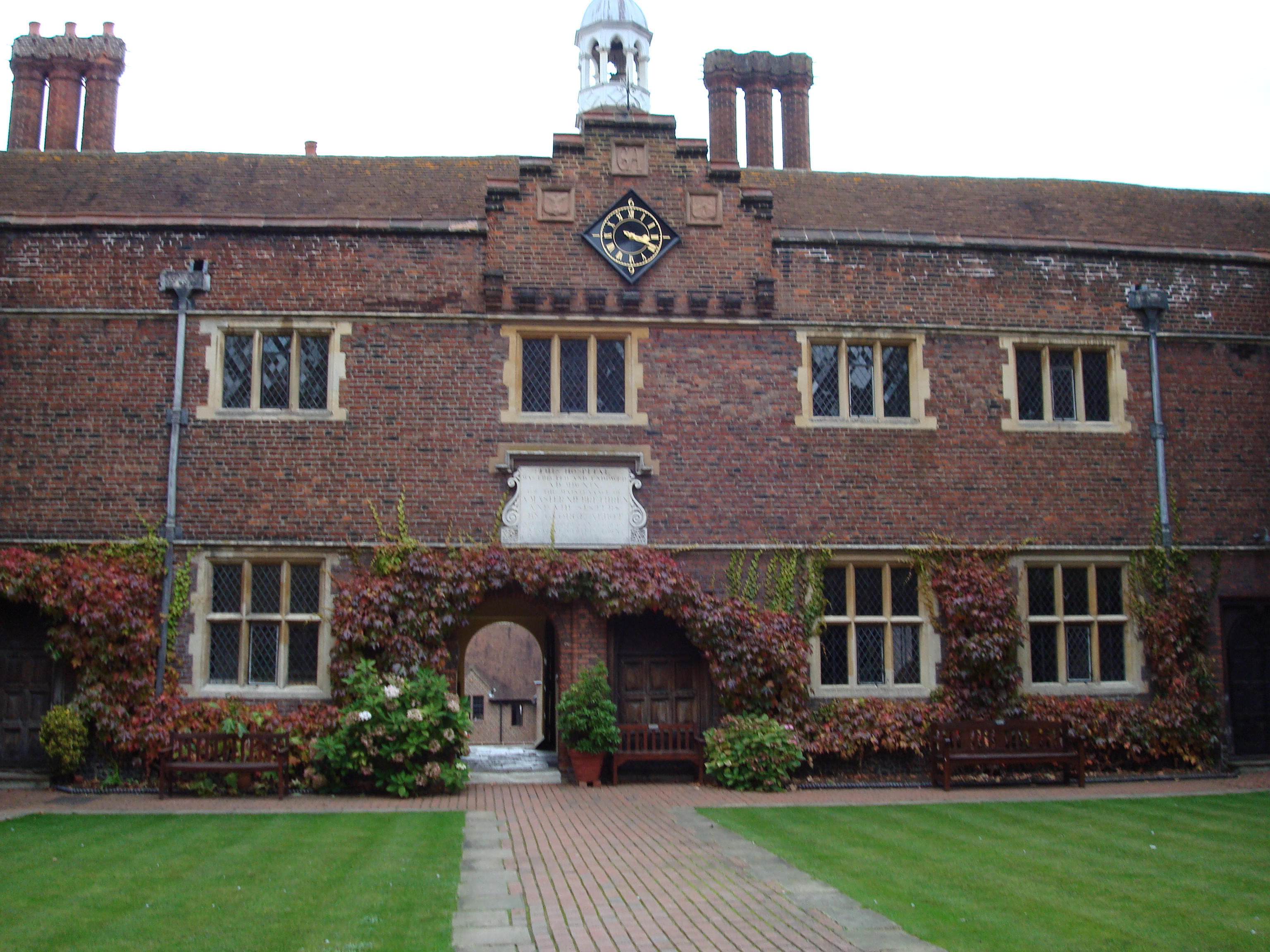 S Knights, my pic, Oct 2007 - In 1619 George Abbot founded the Hospital of the Holy Trinity, now commonly known as Abbot's Hospital, one of the finest sets of almshouses in the country. It is sited at the top end of the High Street, opposite Holy Trinity church. The brick-built, three-storey entrance tower faces the church; a grand stone archway leads into the courtyard. On each corner of the tower there is an octagonal turret rising an extra floor, with lead ogee domes.